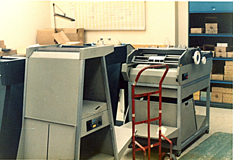 The left was waterfall decollator: only worked on 2-part forms. Place the "input" printout on the center platform and feed the paper through the top and onto each side. The carbon paper was spooled on a spinning piece in the center. It resembeled a water fountain in operation. The burster, right, would tear apart perforated forms (if you were lucky, actually on the perfs, not always).